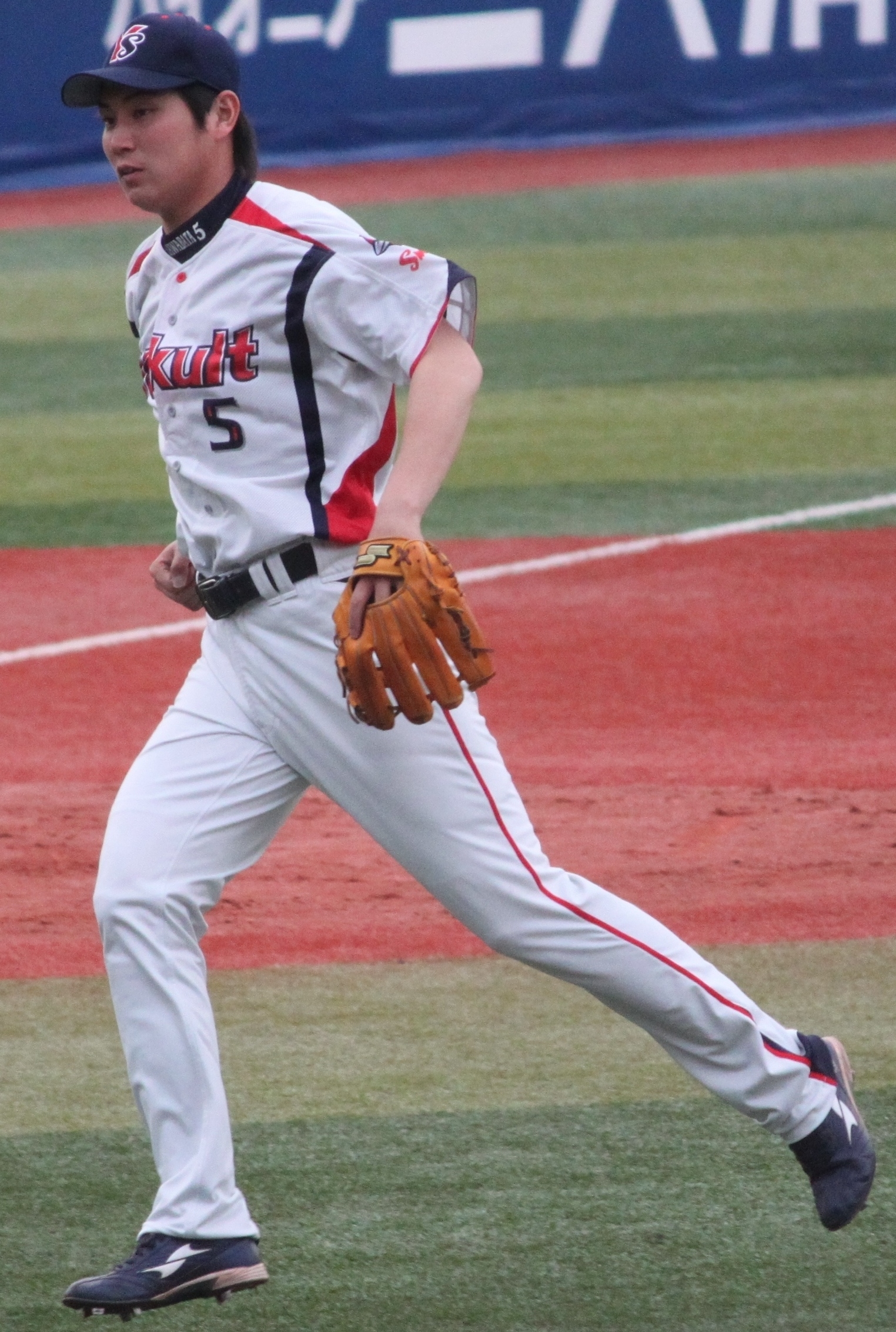 Shingo Kawabata, infielder of the Tokyo Yakult Swallows, at Yokohama Stadium.